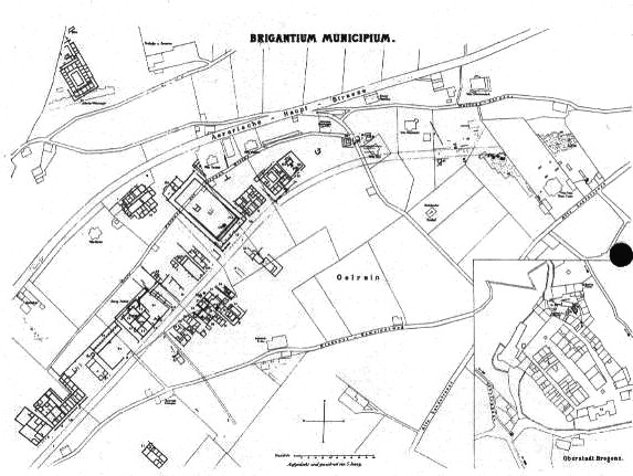 Samuel Jenny, City plan details of the civilian settlement "Auf dem Ölrain" of the roman Brigantium